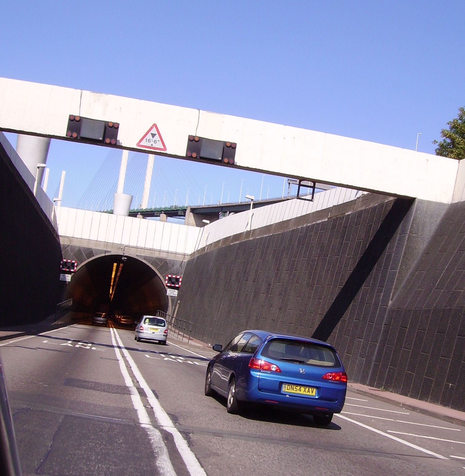 Dartford Tunnel in England, United Kingdom